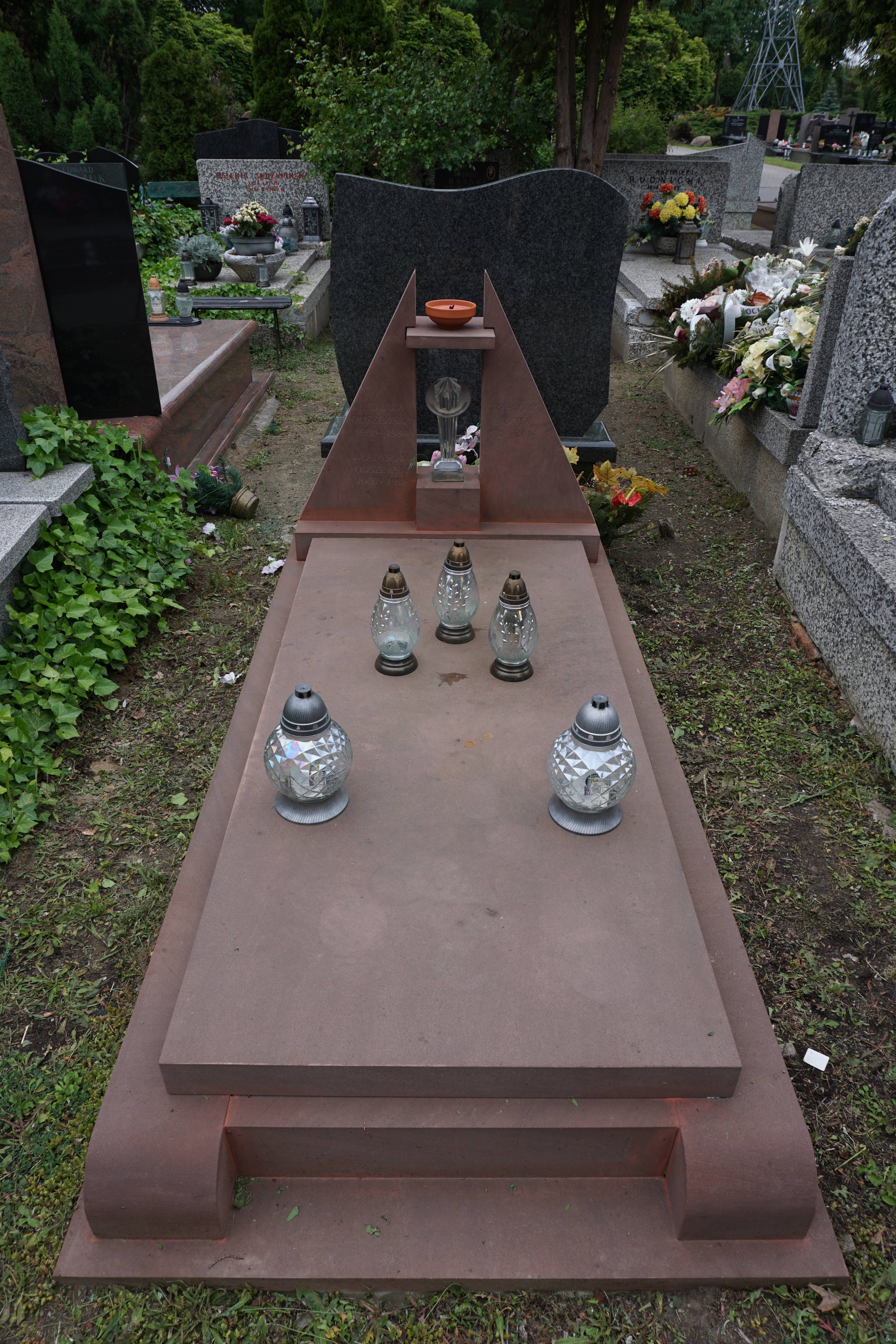 The grave of Grzegorz Lasota at the North Municipal Cemetery in Warsaw (section E-VII-1, row 5, grave 5)